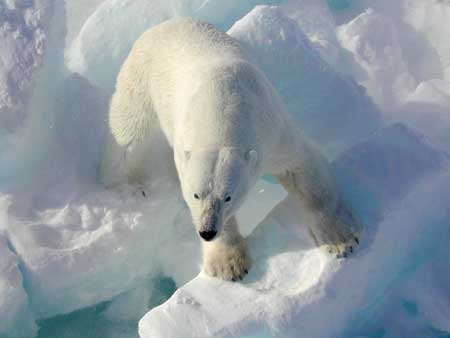 A male polar bear